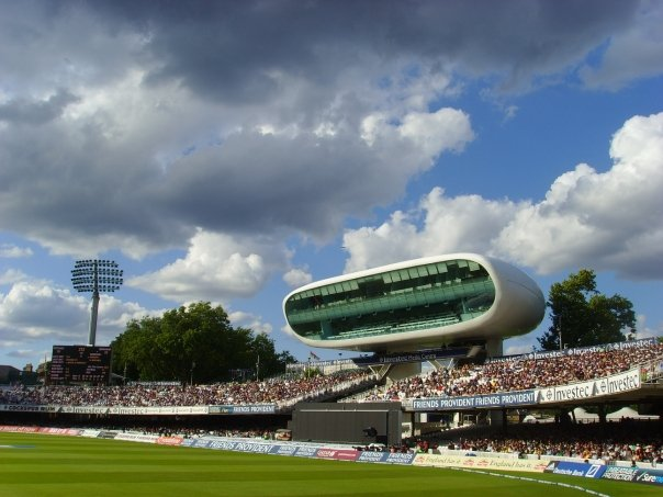 A view of the Media Centre at Lord's during the final of the 2009 Friends Provident Trophy final between Hampshire and Sussex.